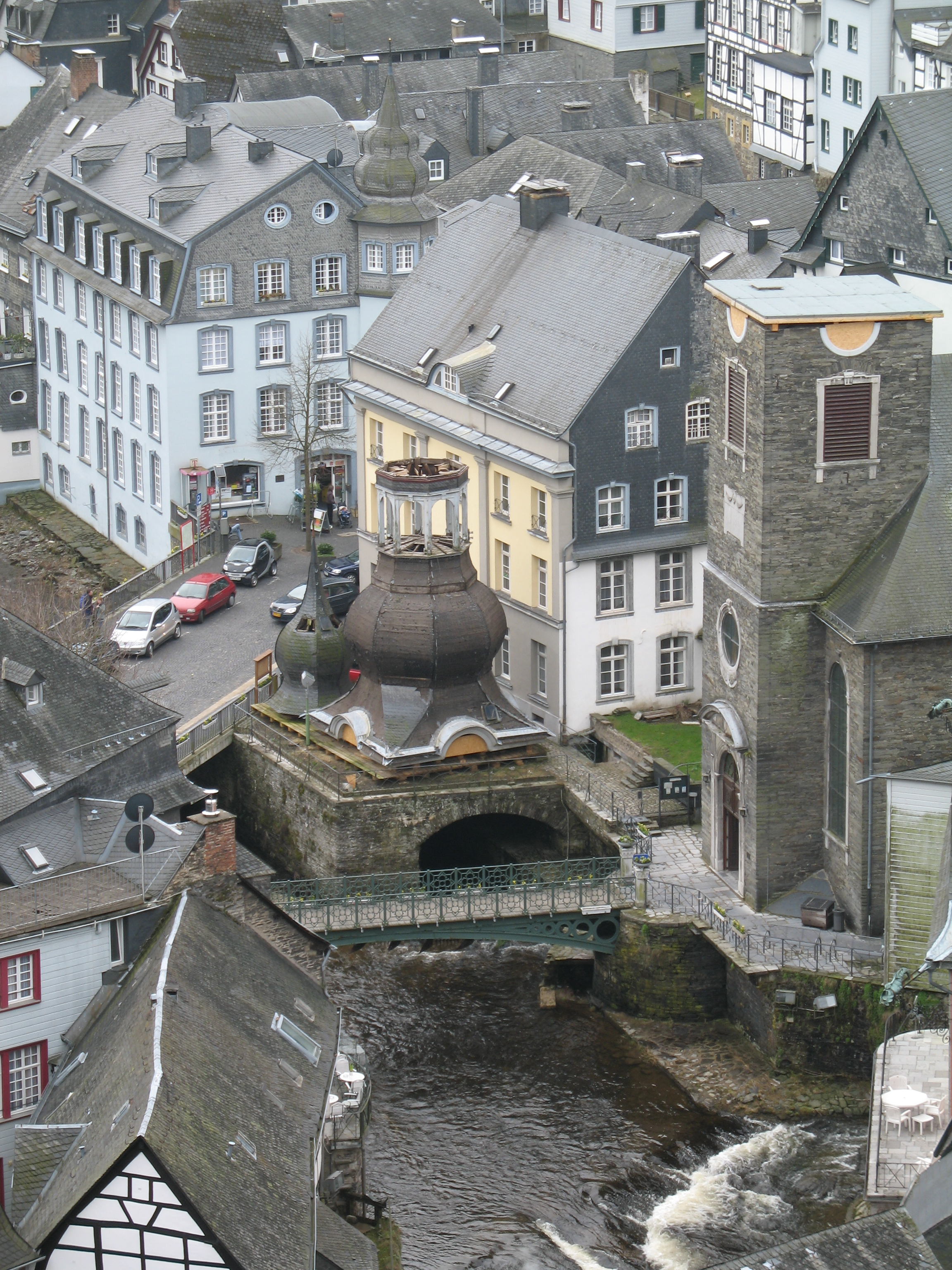 Protestant church in Monschau with (temporarily) dropped off helmet